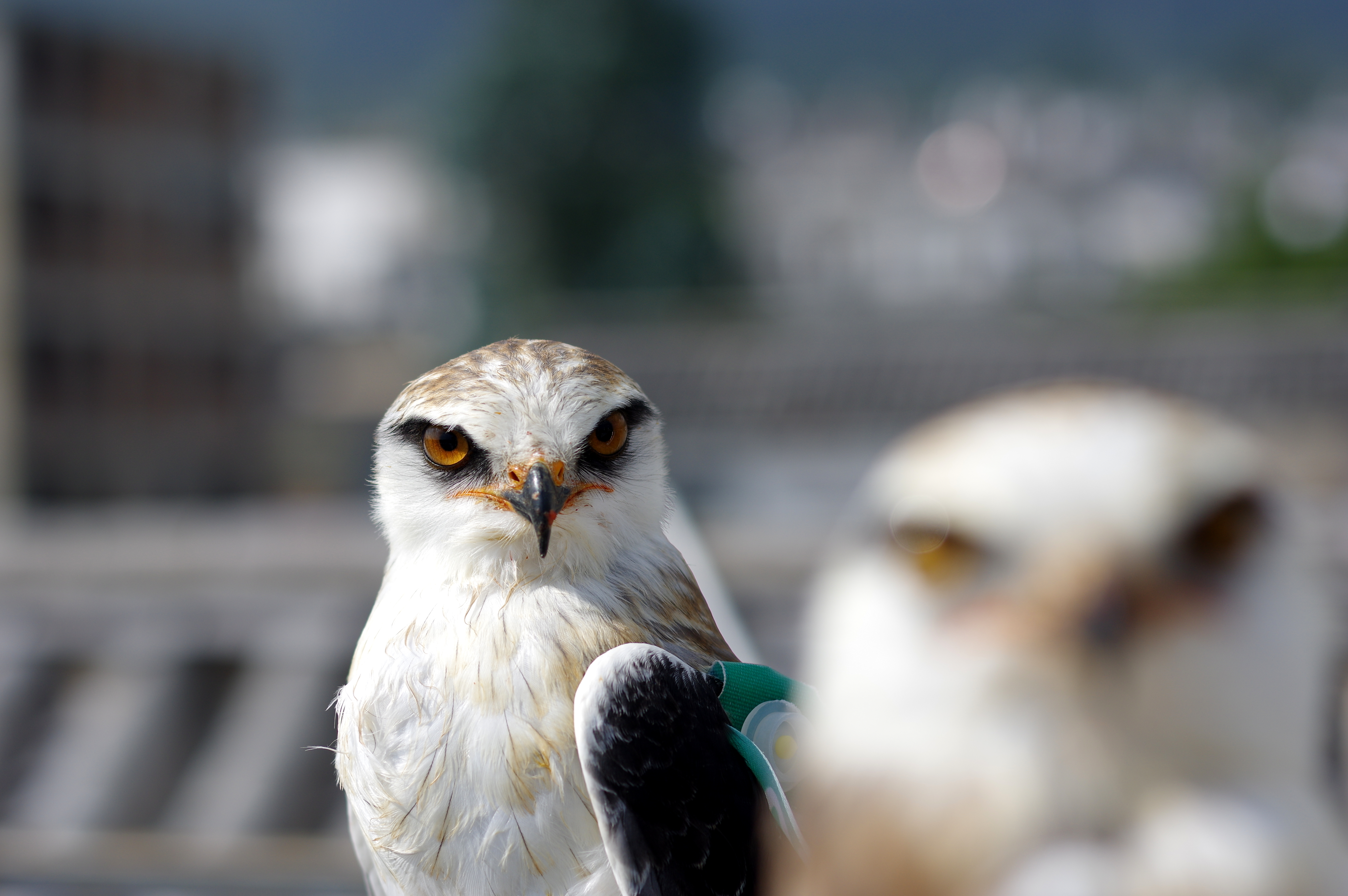 Elanus caeruleus